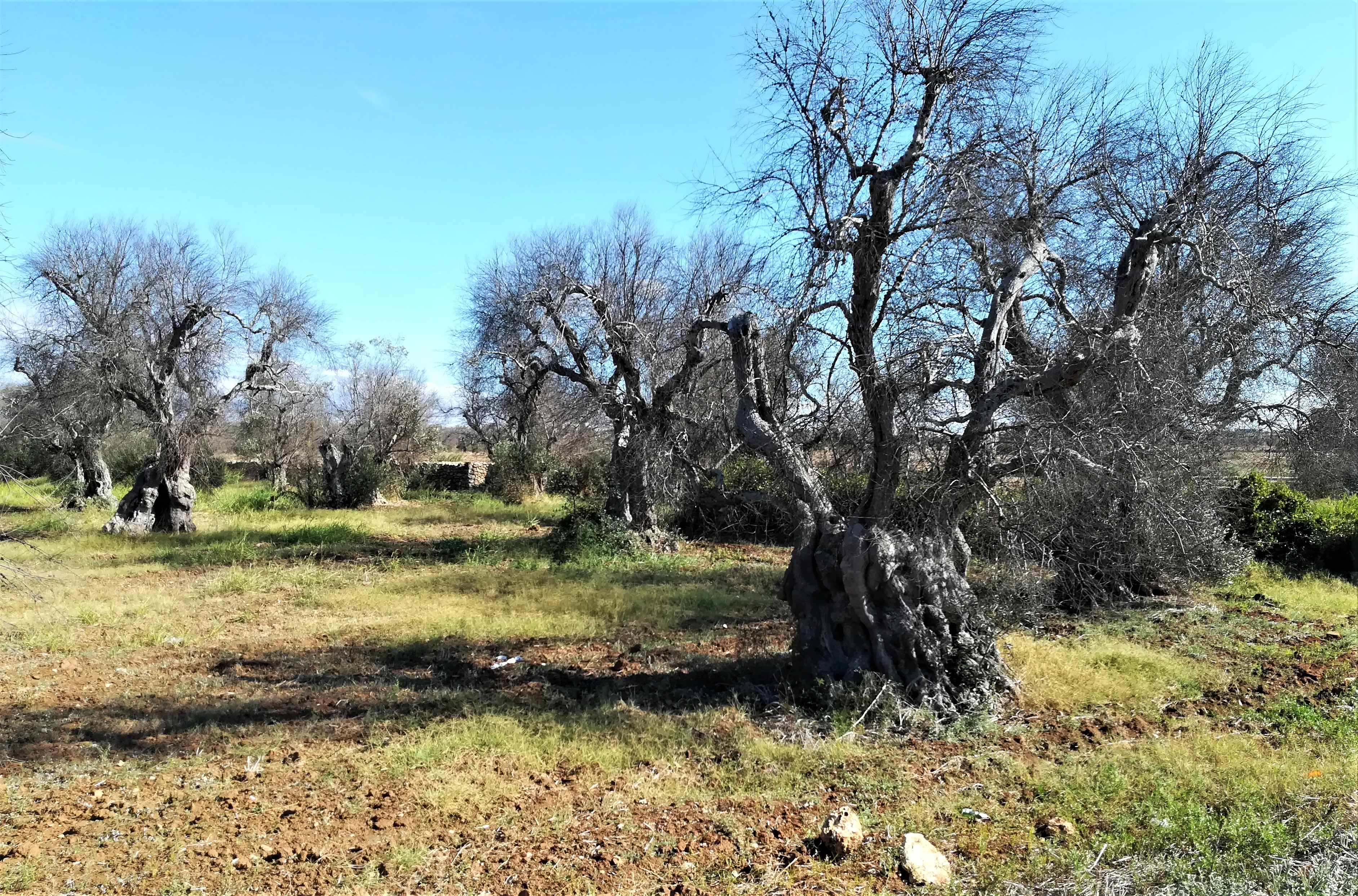 olive trees attacked by Xylella in the countryside of Gallipoli (Italy)